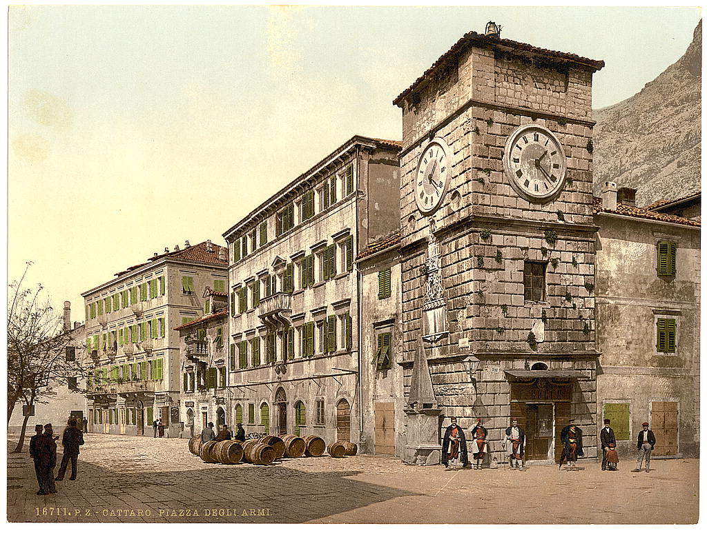 Cattaro, Army Square, Dalmatia, Austro-Hungary, early 20th century